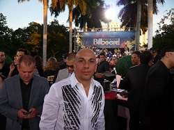 Roberto Ferrante at the Billboards Awards